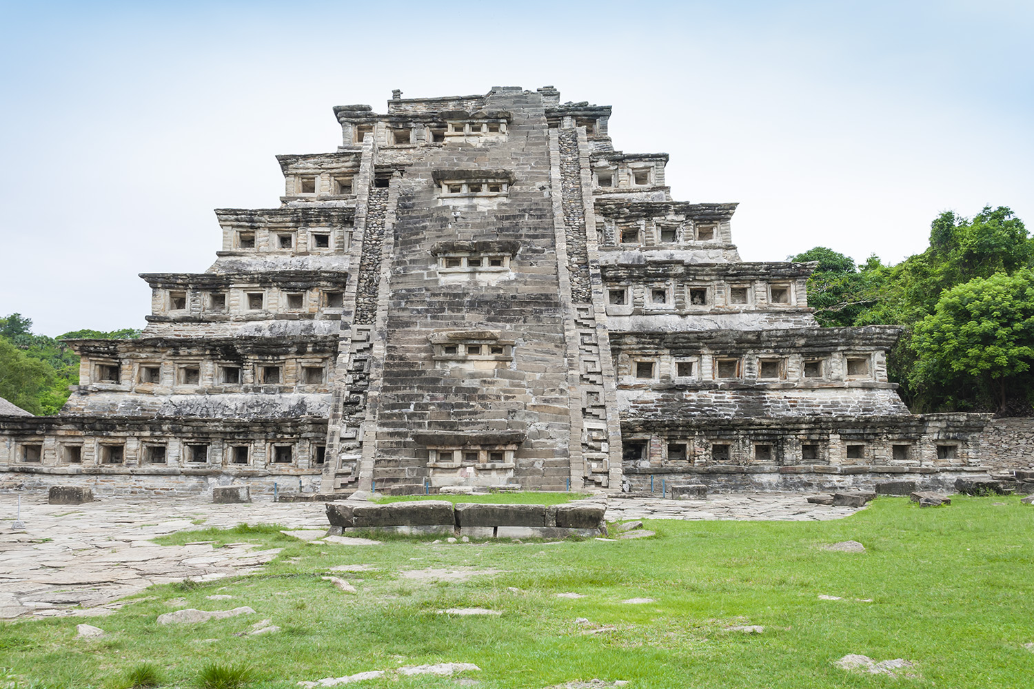 The Pyramid of the Niches